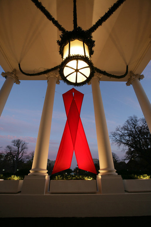 Red Ribbon hanging in the North Portico of the White House in Observation of World AIDS Day.